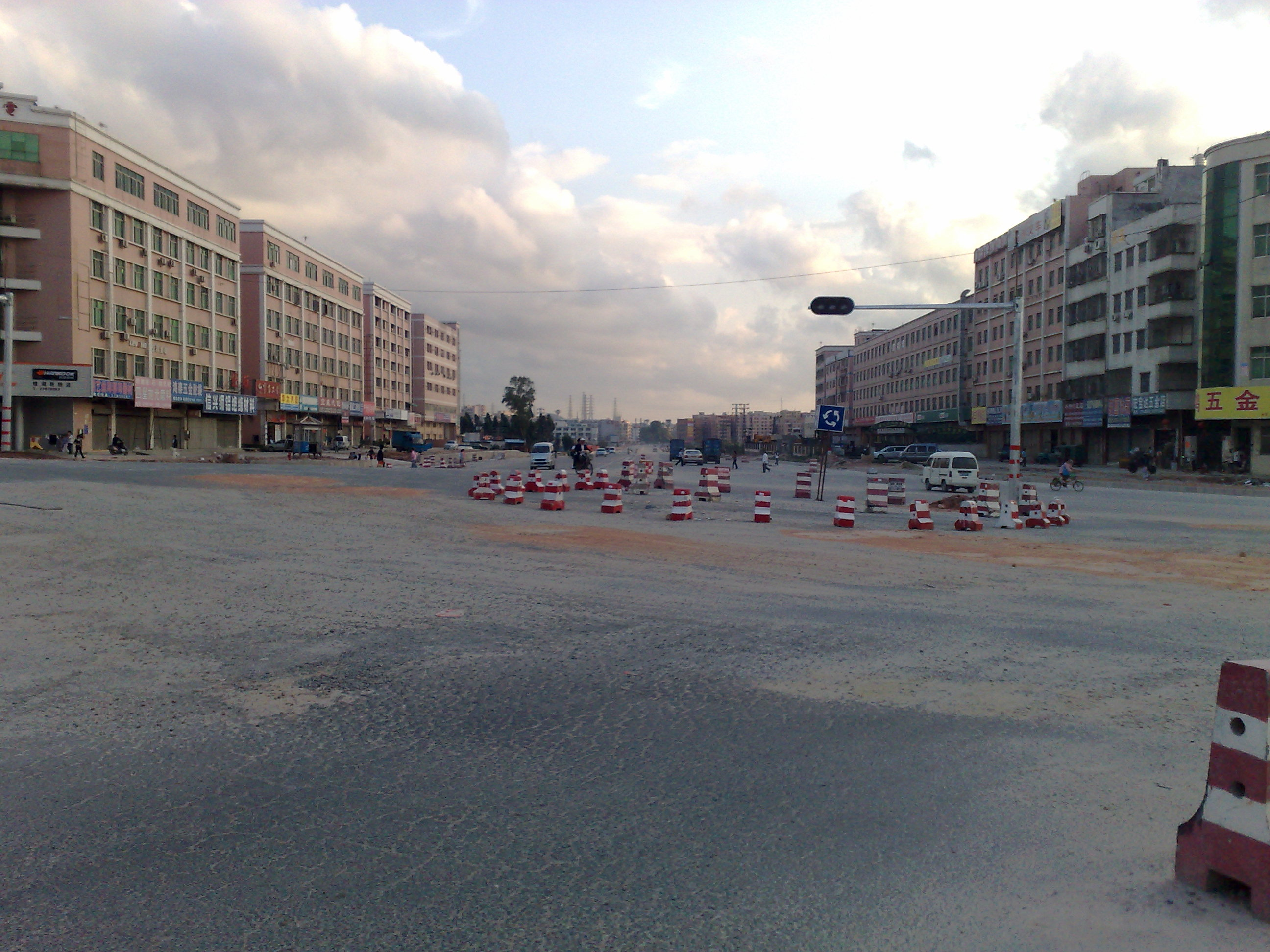 Photo of a street in Shiyan, Shenzhen.